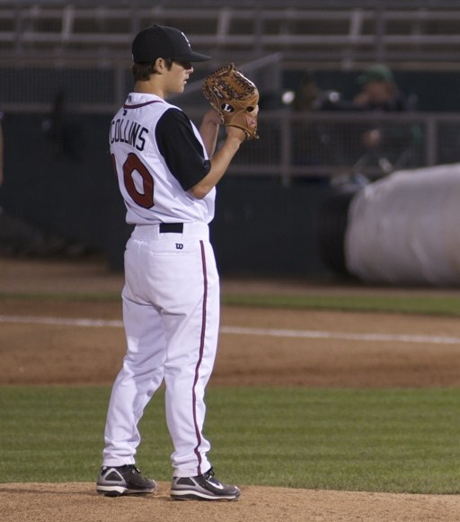 Tim Collins pitching on May 5, 2008.